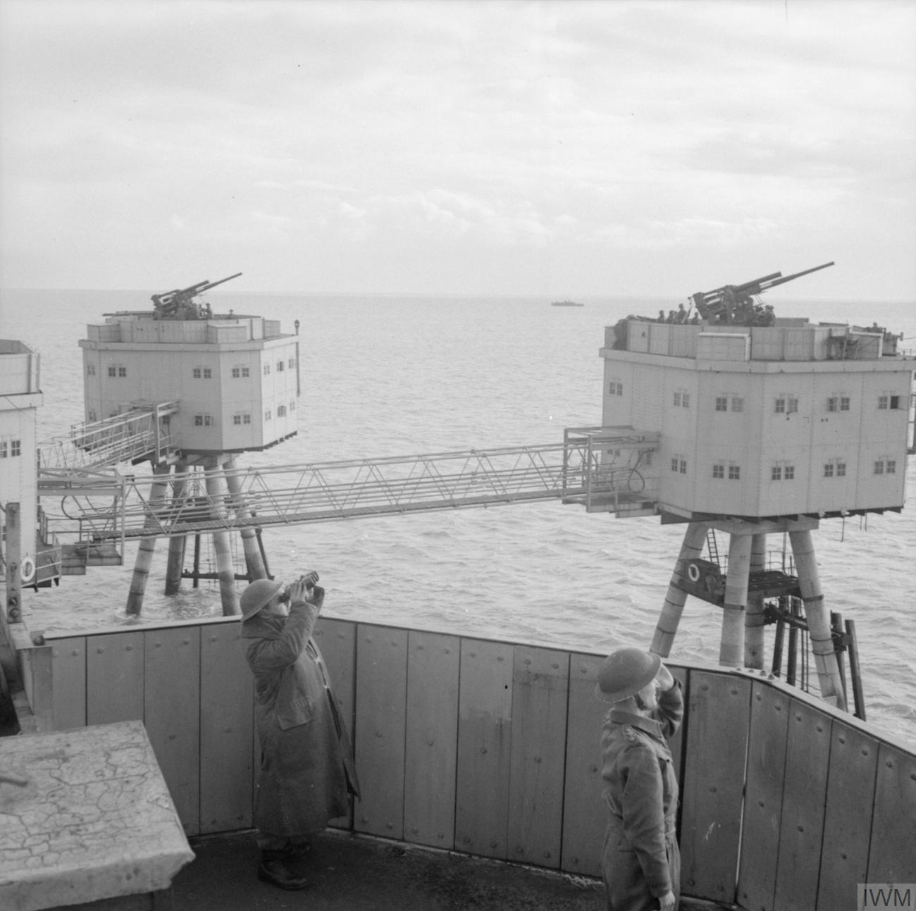 The British Army in the United Kingdom 1939-45 Anti-aircraft crews scan the sky from a Maunsell sea fort in the Thames Estuary, 19 November 1943.